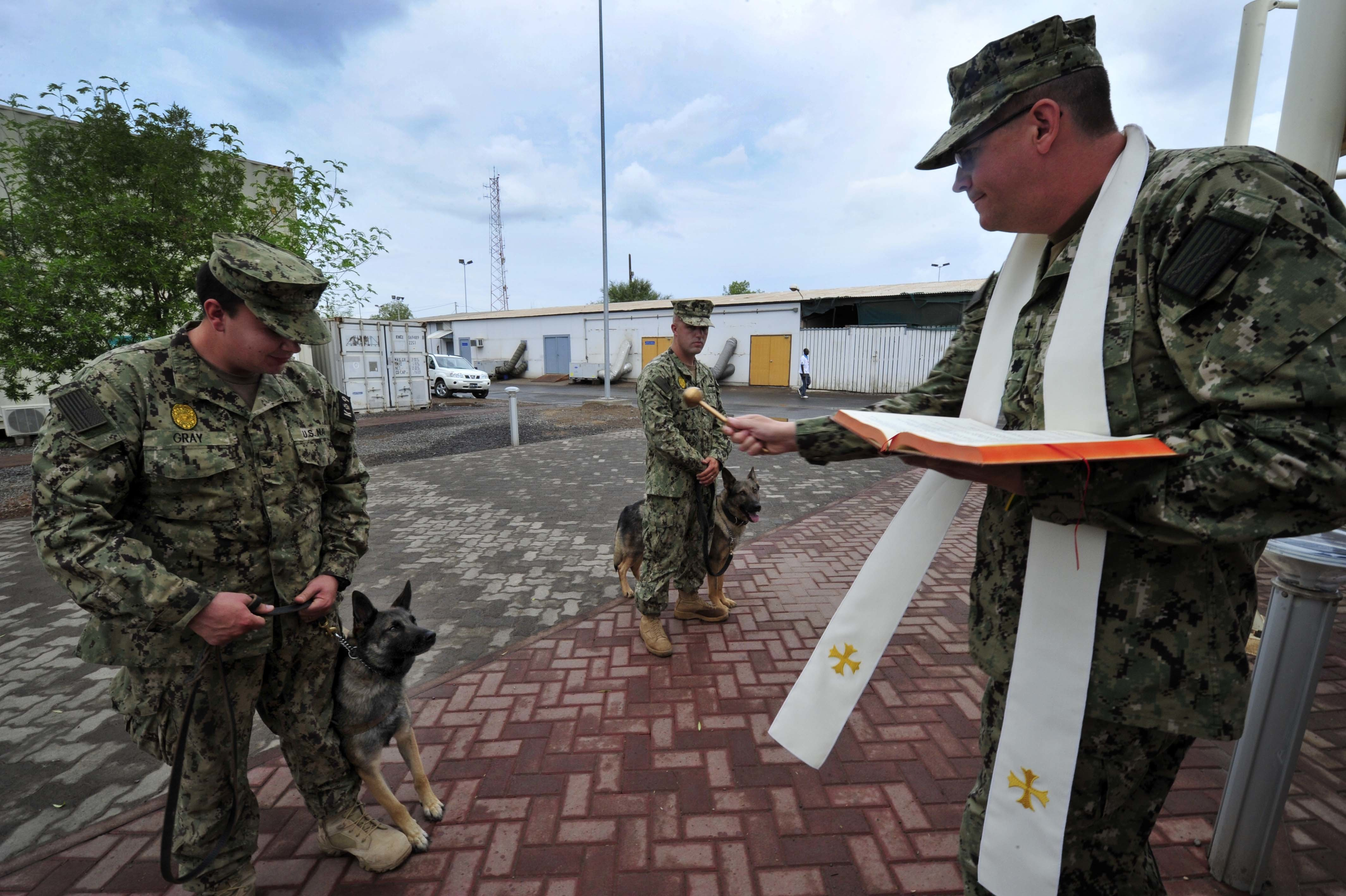 Master-at-Arms 2nd Class Andrew Gray, his military working dog, Aja, and Master-at-Arms 2nd Class Ian Stephenson, his military working dog, Rex, stationed at Camp Lemonnier, Djibouti, security forces receive a blessing from Cmdr. Ron Neitzke, command chaplain. The blessing was in recognition of the feast of St. Francis of Assisi. (U.S. Navy photo by Mass Communication Specialist 1st Class Julia A. Casper/Released)